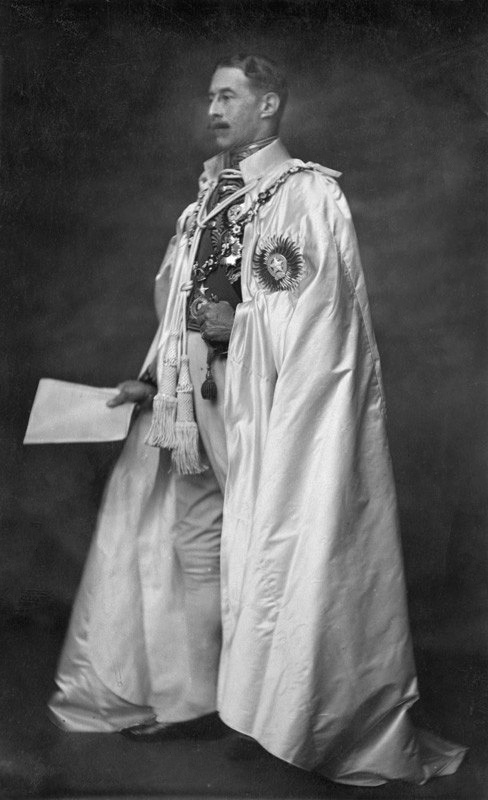 Portrait of Lawrence Dundas, 2nd Marquess of Zetland, Secretary of State for India